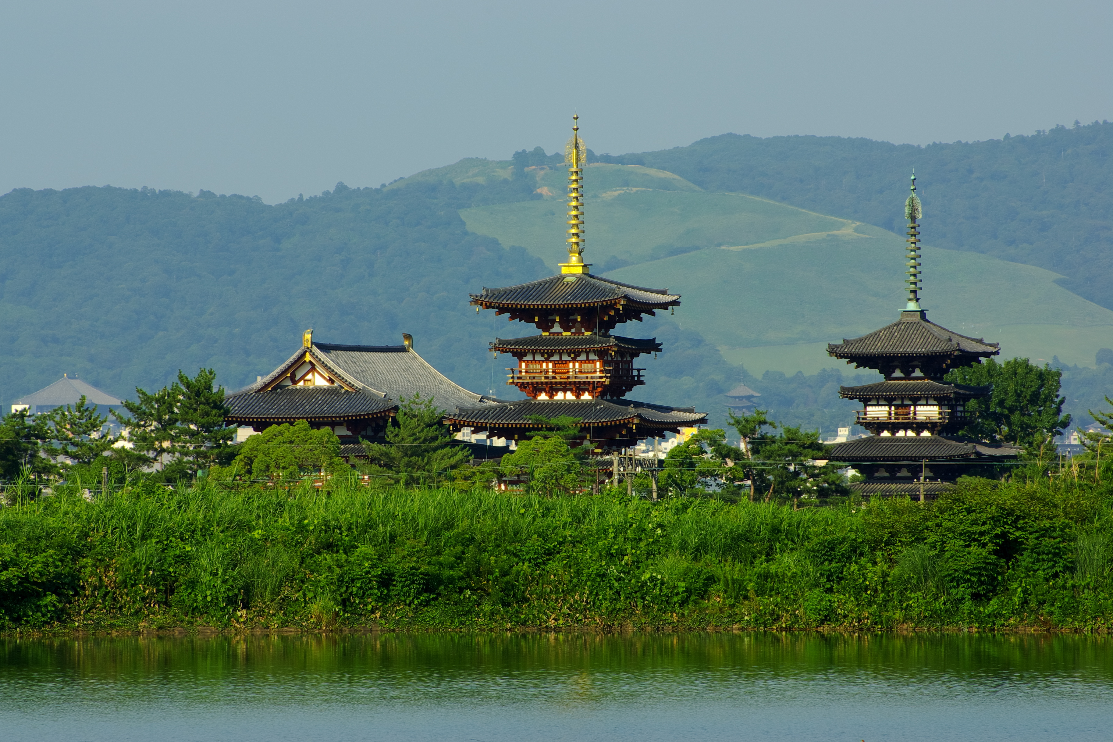 Yakushiji-temple and Wakakusayama-hill which was seen from Oike pond.